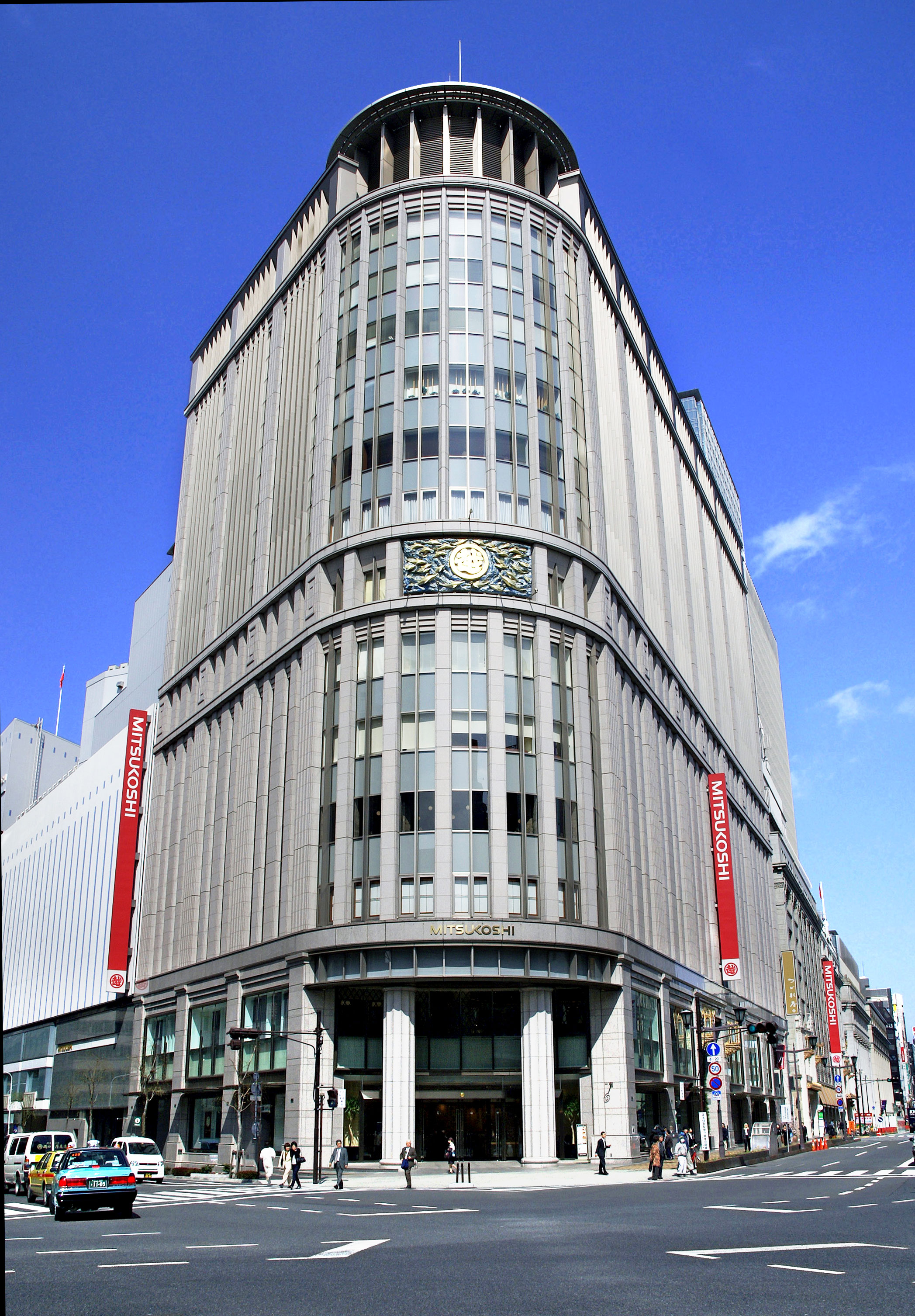 Mitsukoshi department store in Nihombashi, Tokyo, Japan